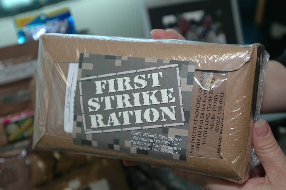 The new First Strike Ration includes items such as the First Strike! Bar, beef jerky, nut and fruit mix, caffeinated gum, applesauce, tortillas, honey BBQ beef pocket sandwiches and filled French toast pockets. The ration is meant to provide Soldiers with three meals a day, is about the size of a single MRE, and contains only items that can be easily eaten with the hands. It is designed for Soldiers on the move. (original caption)